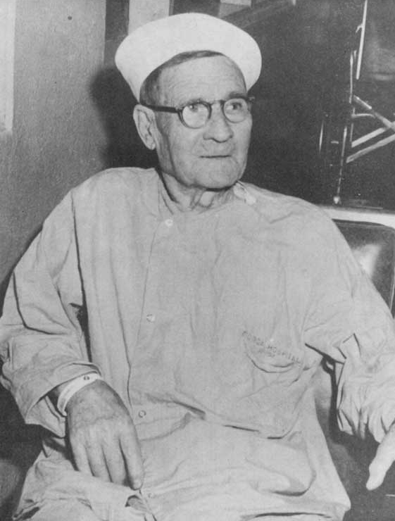 Halftone of a photograph of Harry Herbert Miller at Gorga Hospital, Costa Rica in 1960, at the age of 81. While serving in USS Nashville (Gunboat # 7) during the Spanish-American War, he was awarded the Medal of Honor for his role in the 11 May 1898 cable cutting operation off Cienfuegos, Cuba. Courtesy of the Army Museum, Halifax Citadel, Halifax, Nova Scotia, Canada, 1971.